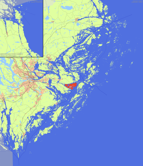 Location of the island Fågelbrolandet